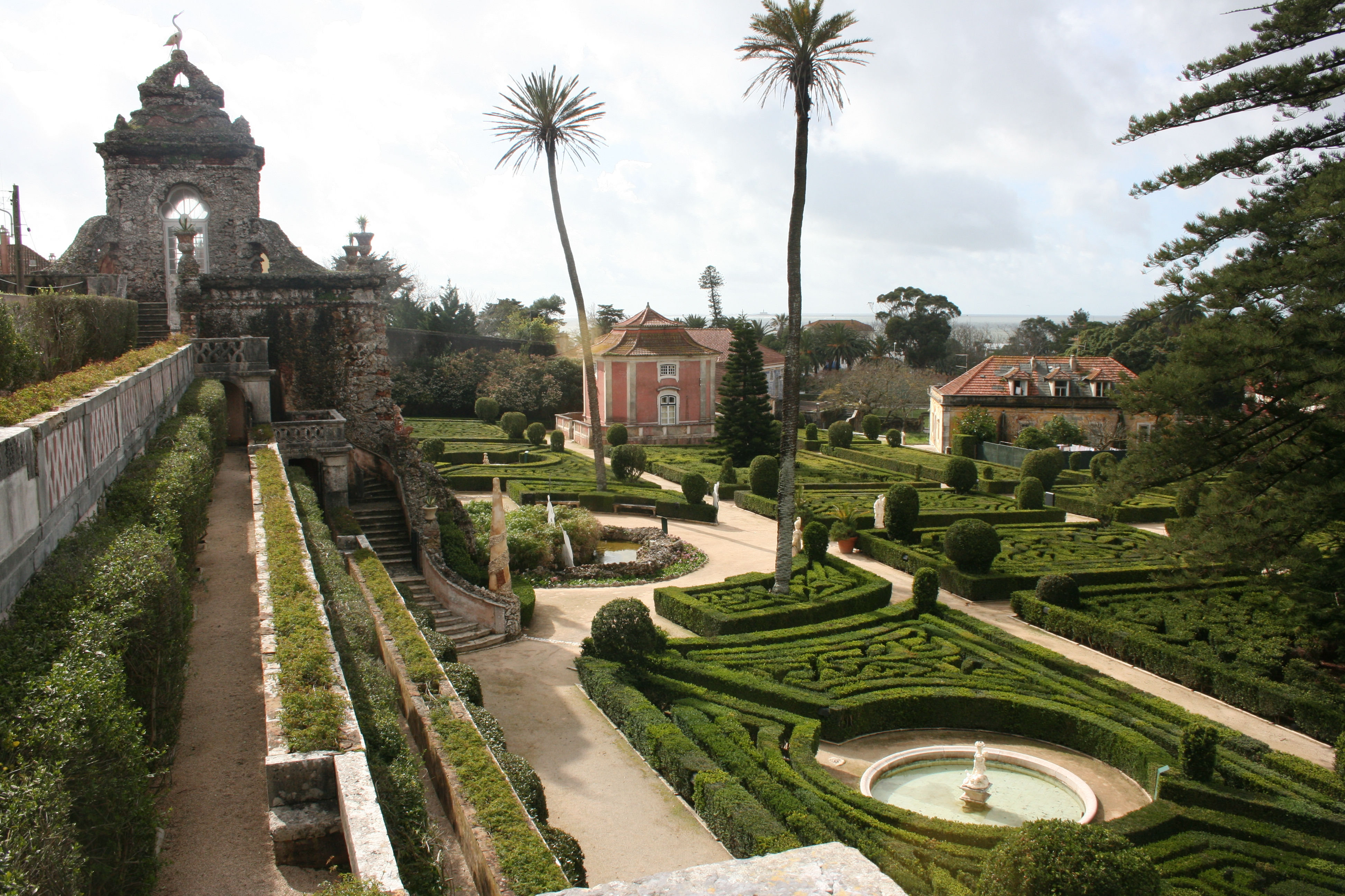 Also known as antigo Paço Real de Caxias, Oeiras, Lisboa, Portugal, UE. French-inspired gardens (Lenôtre) in a small "quinta" of the royal family of Portugal. Side view, from the monument.